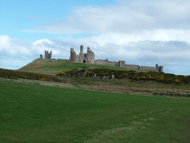 Dunstanburgh Castle